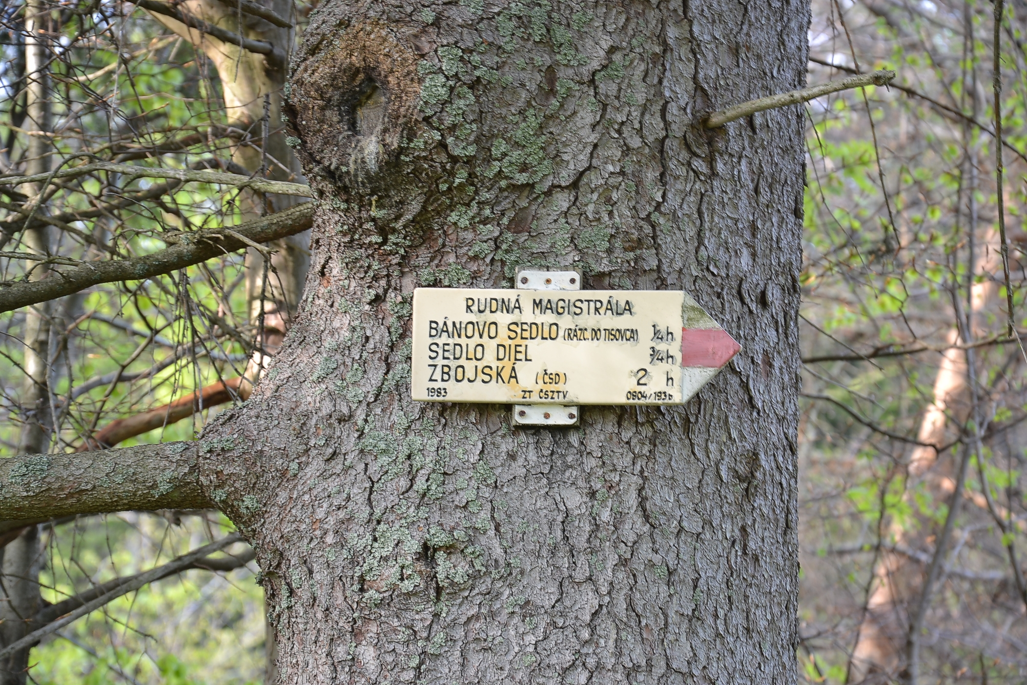 Rudná magistrála, SK - hiking sign from 1983